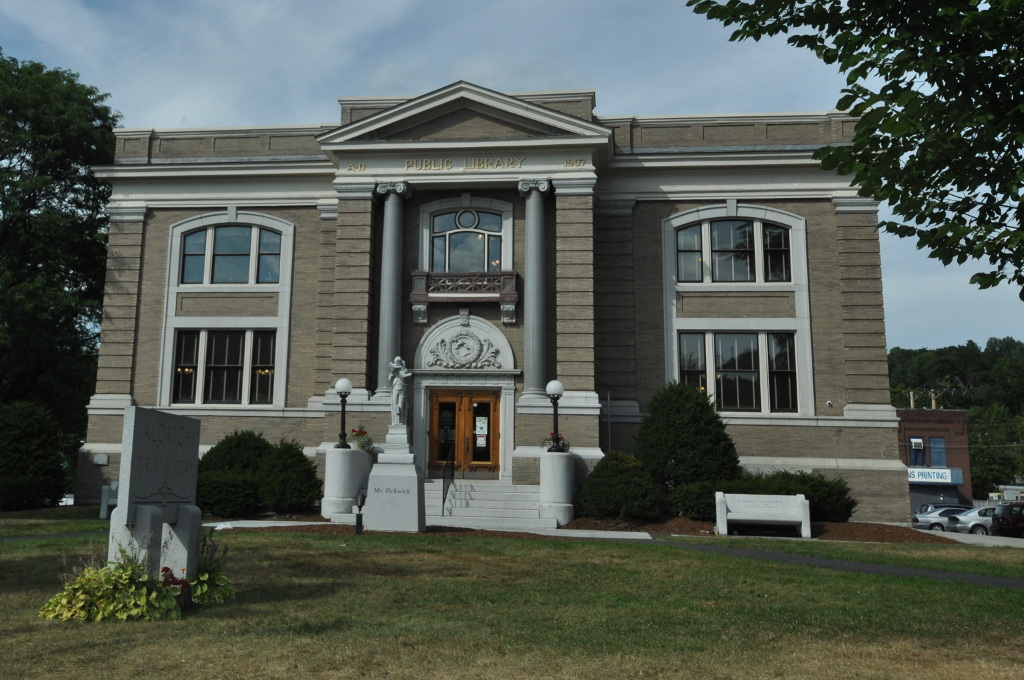 Aldrich Public Library, Barre (city), Vermont.